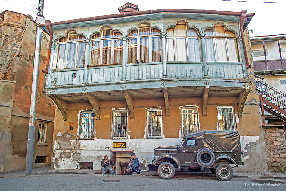 Old Tbilisi balcony